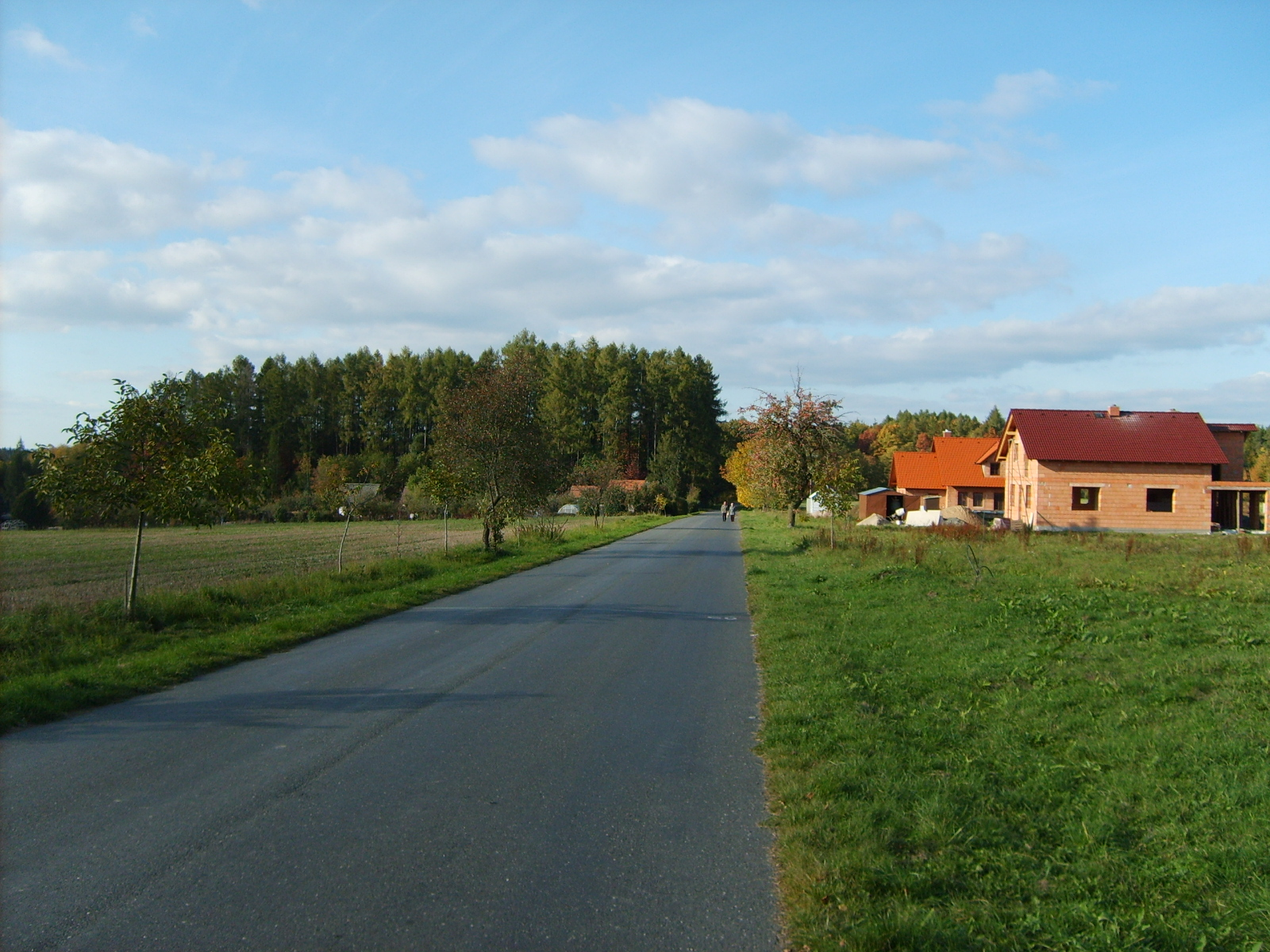 New fabrication in DOlní Kralovice.